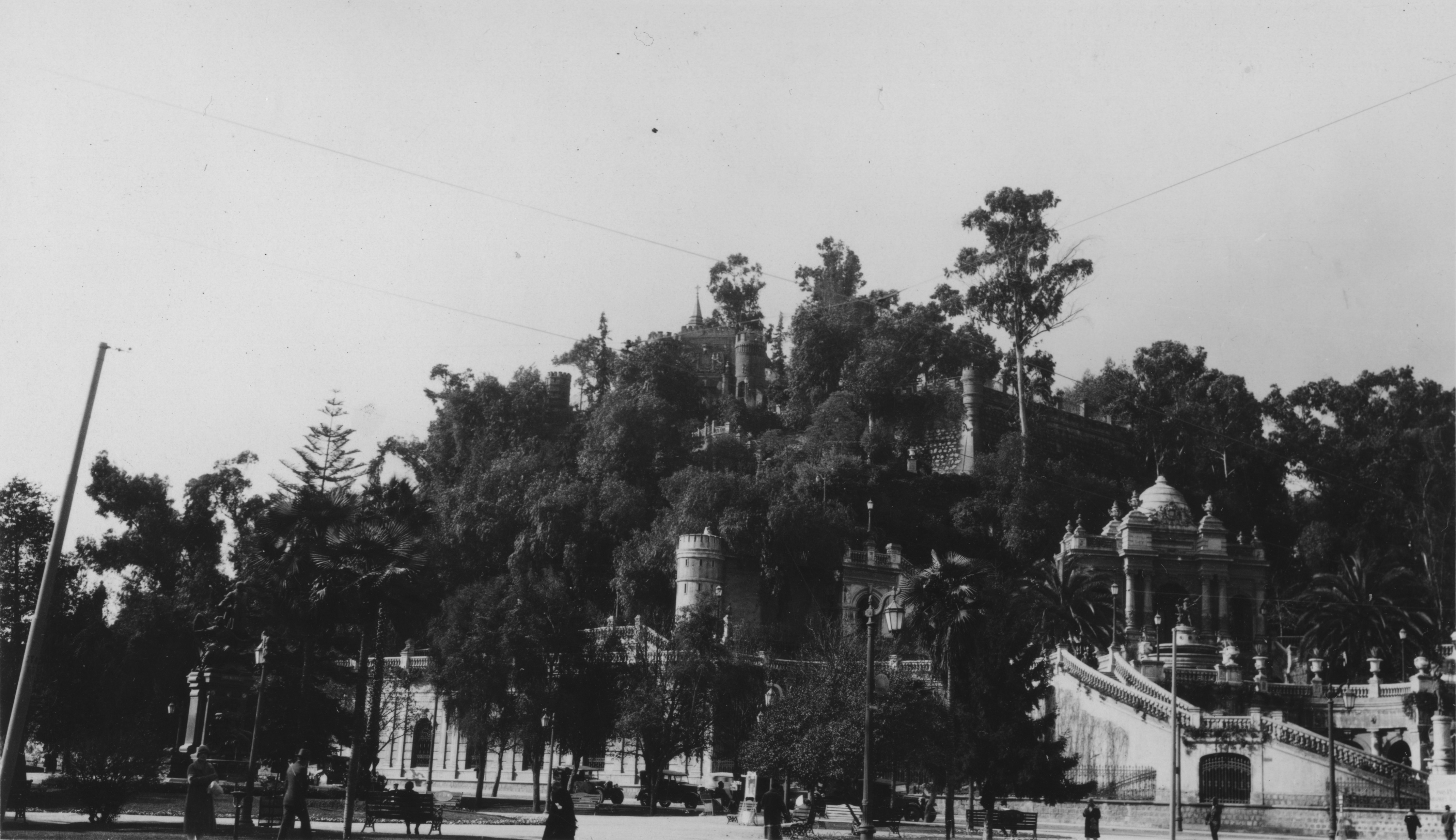 The Santa Lucía Hill (Cerro Santa Lucía) in Santiago, Chile.